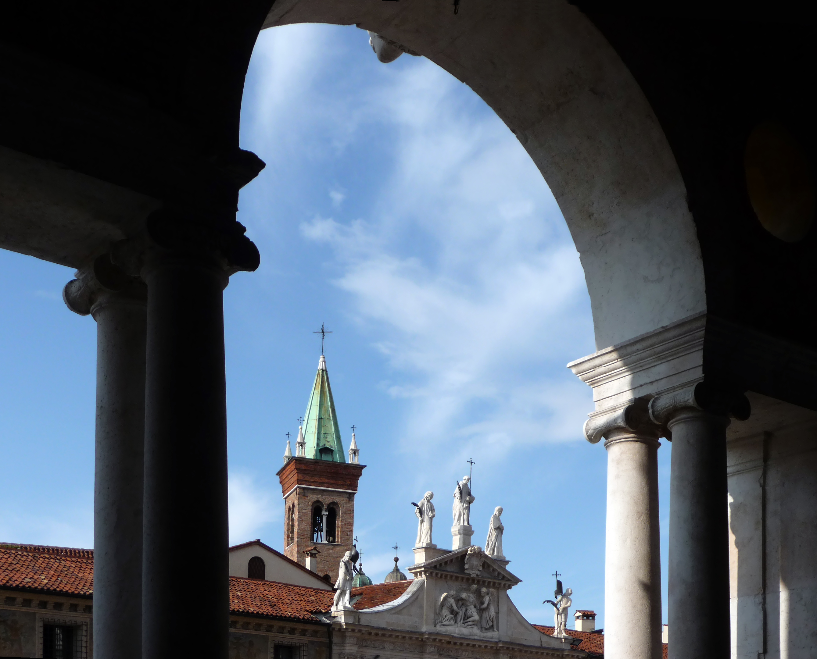 Vicenza, the Basilica Palladiana during the 2008 restoration works.